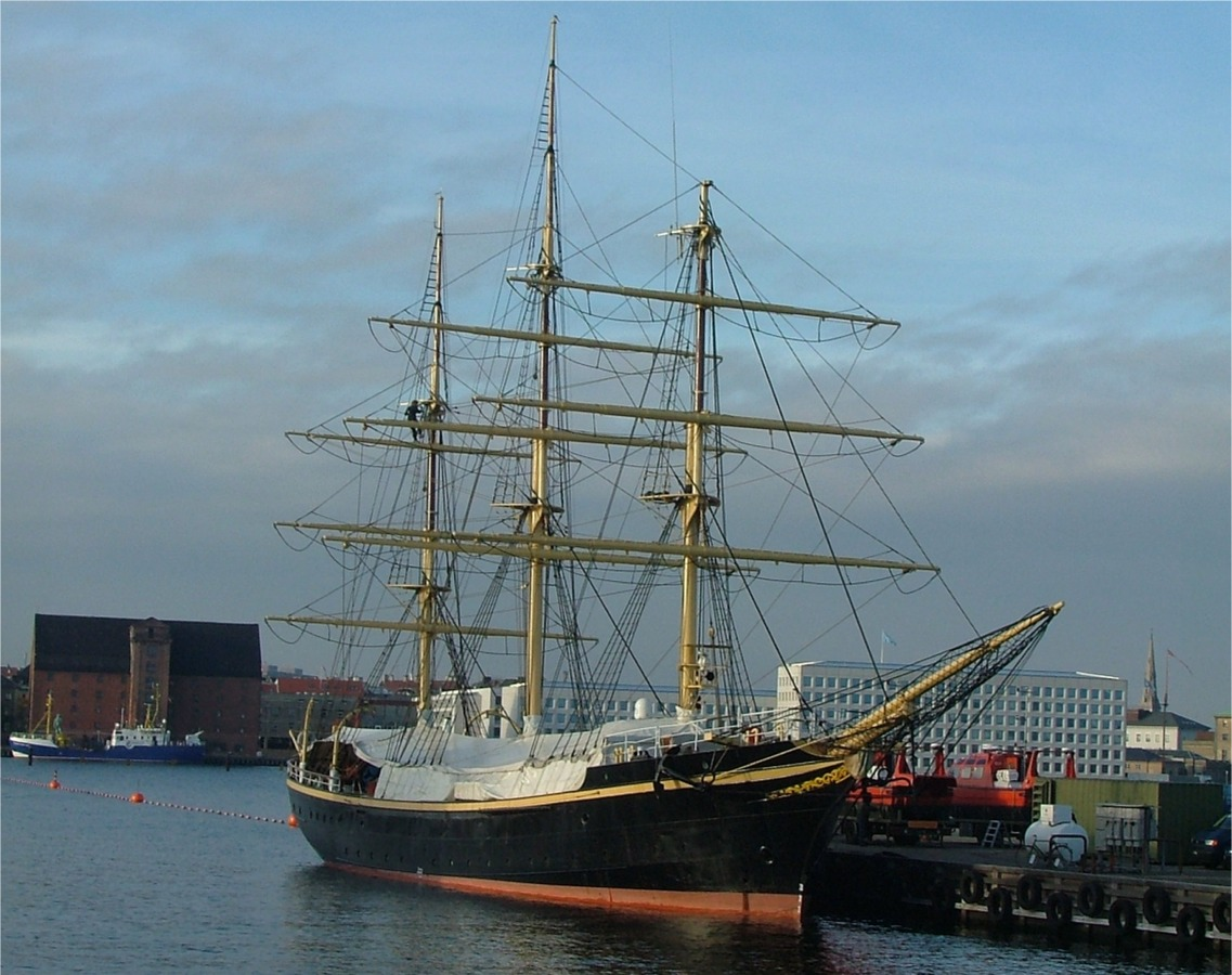 Photos from the former Naval Base Copenhagen: Training Ship "Georg Stage" Photo by Jan Kronsell, 2005